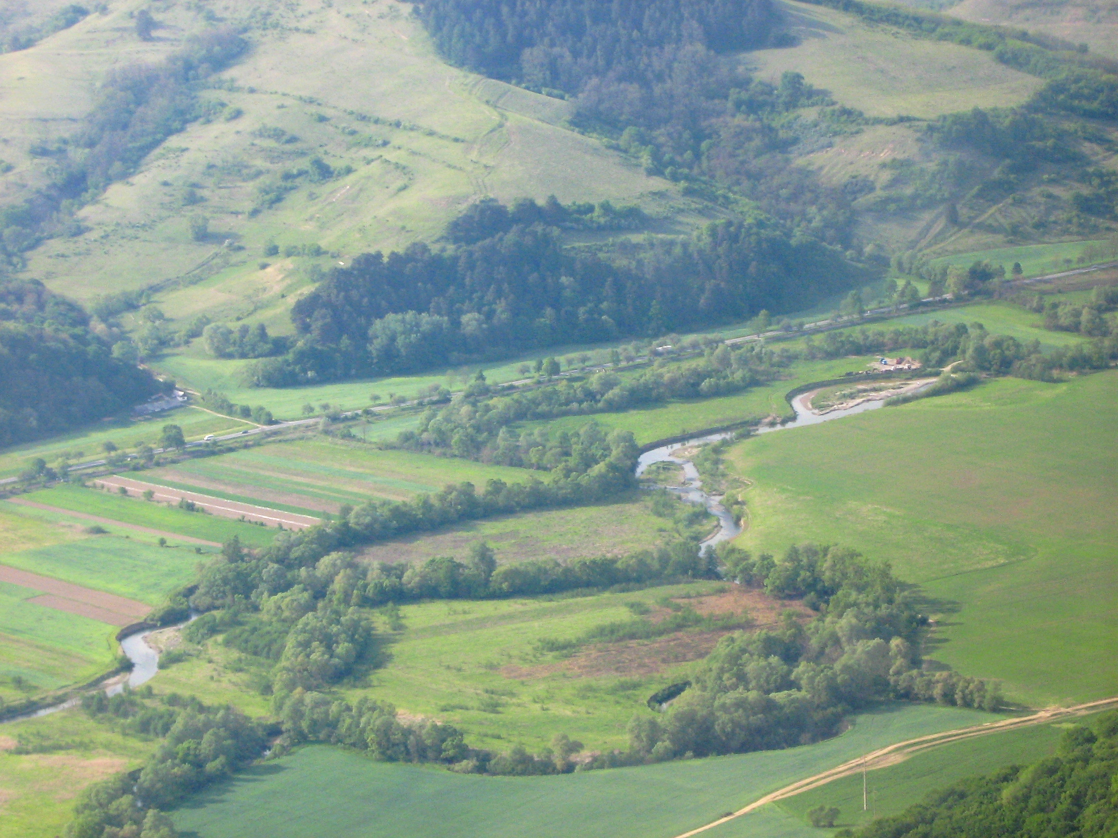 The Târnava Mică (Kis-Küküllő) river beetween Hármasfalu és Erdőszentgyörgy